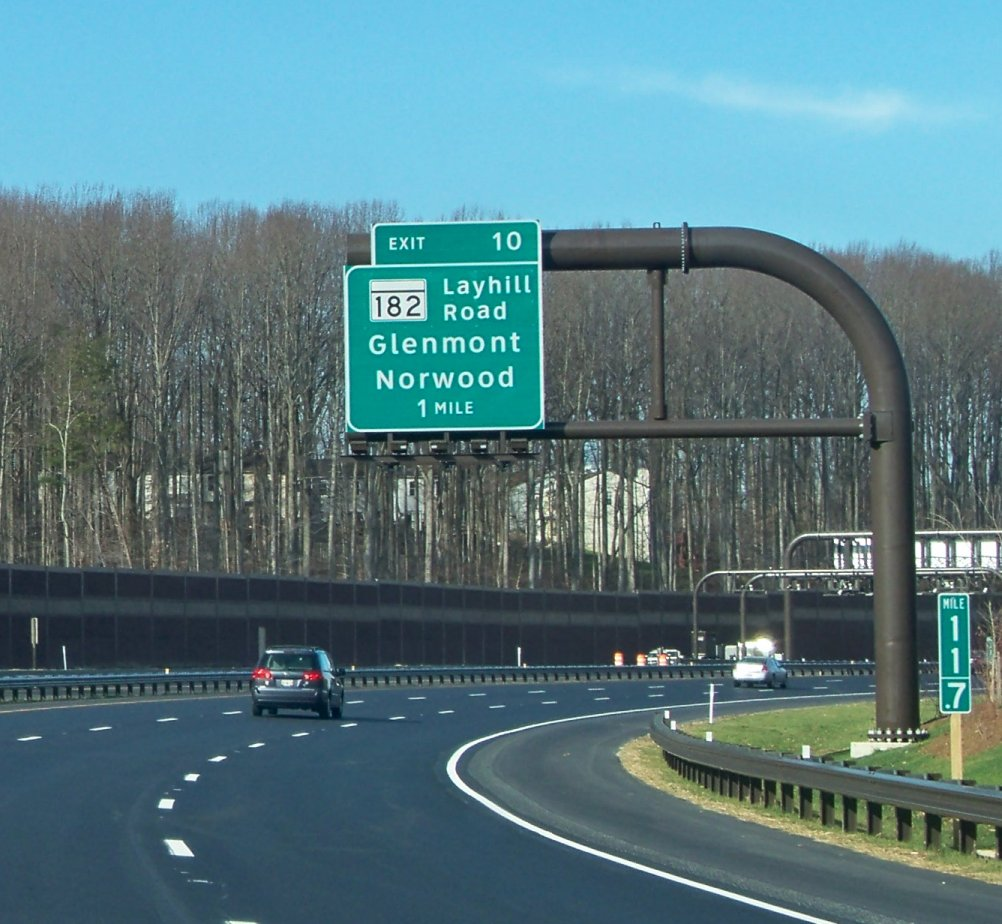 Intercounty Connector (MD 200) westbound at Mile 11.7 with a MD 182 Layhill Road / Glenmont / Norwood sign